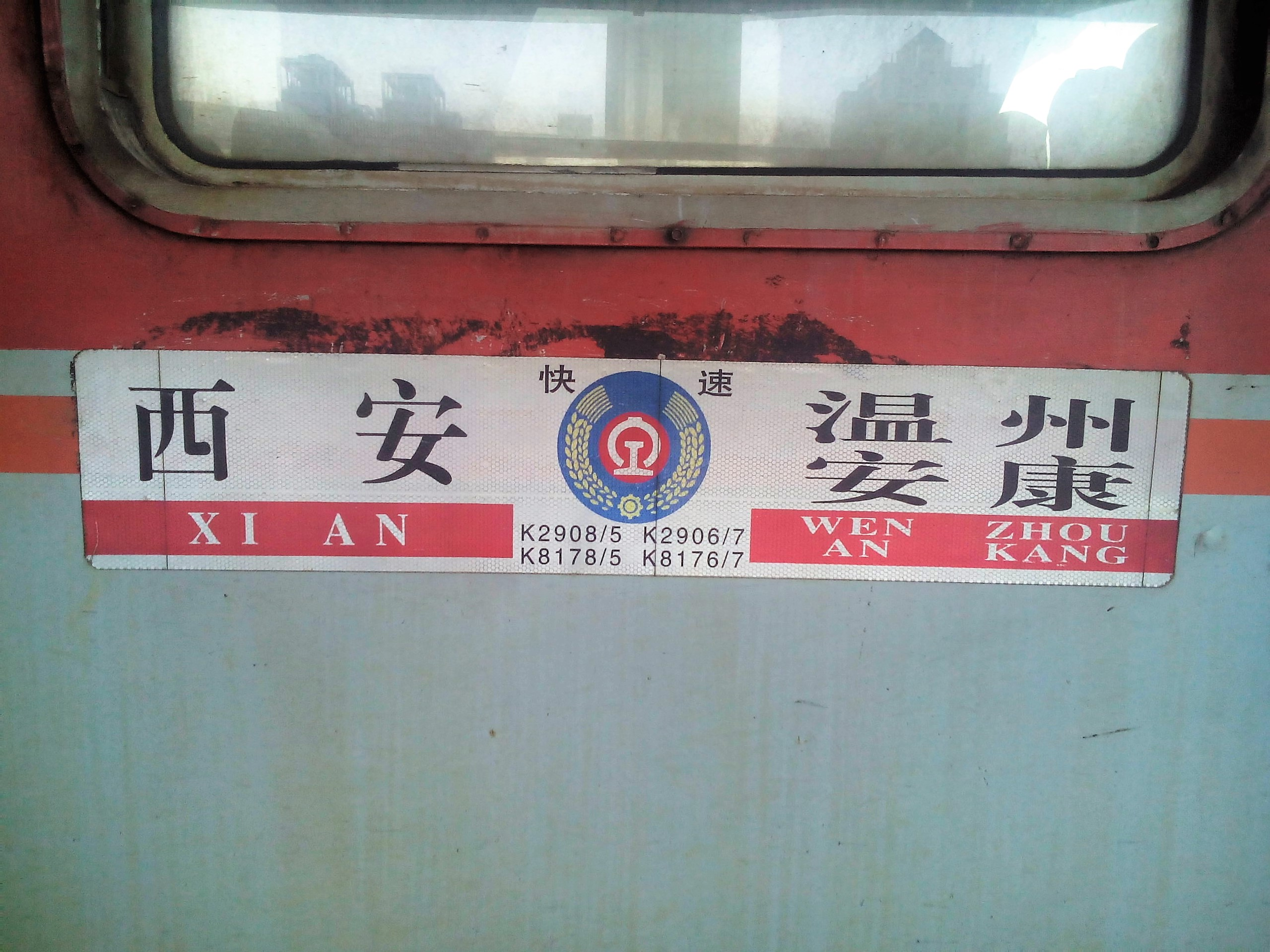 K2905-2906-2907-2908 infoboard 201508. I didn't shoot any of its infoboard later.